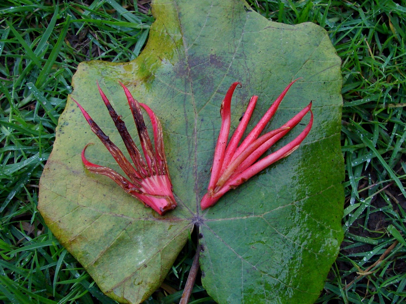 Fallen "Devil's hand" out of calyx . The curious shape of the stamens which are partially united and form a red small hand with hooked fingers. See notes. Correct me if you know. Species name Chiranthodendron pentadactylon - the only species of this genus Family: Malvaceae (former Sterculiaceae) Native: America: Mexico - Guatemala Common names: devil's-hand-tree, Mexican-hand-plant , Monkey's Hand, árbol de la manita